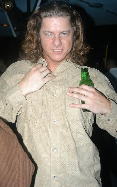 Alex Sanders at LA Direct Model's Party, Dec 19, 2005